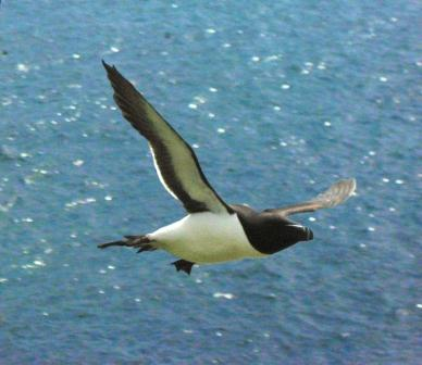 At Gannet Island Labrador, Canada